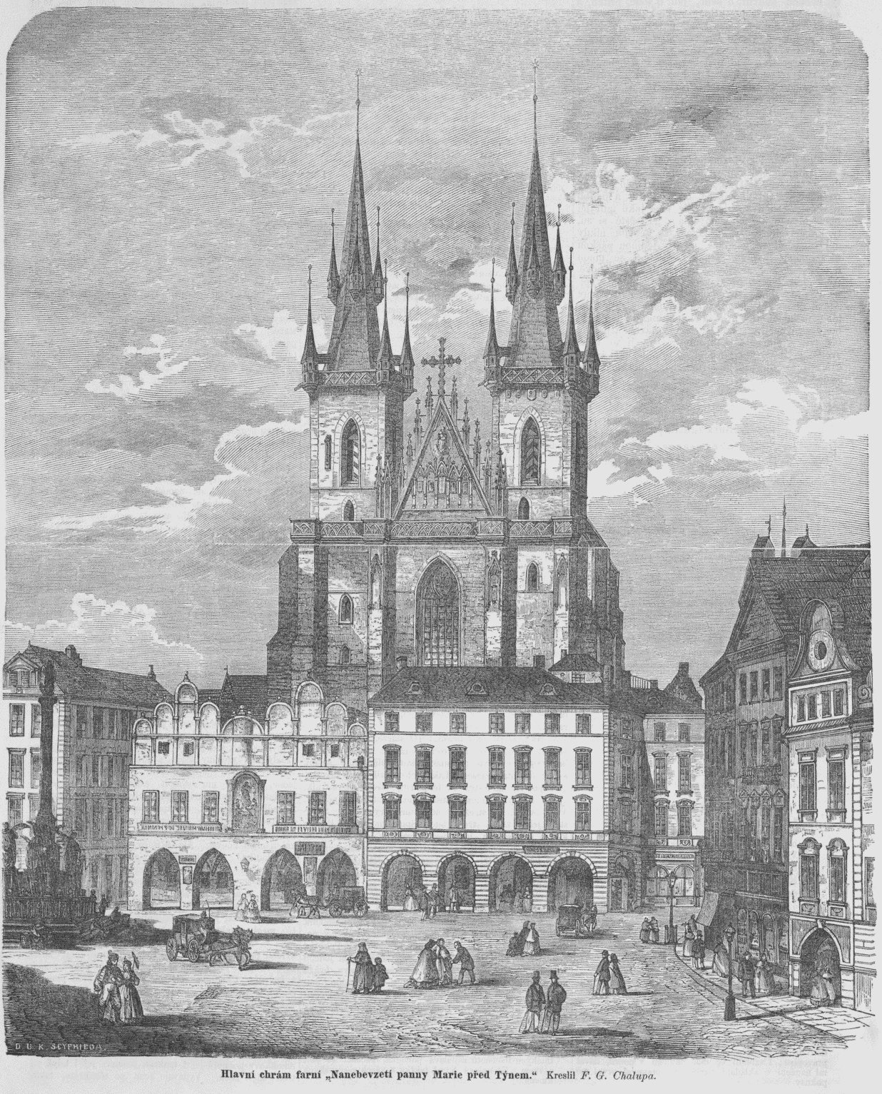 Old Town Square in Prague with the church of Our Lady at Týn and with the Maria Column (Mariánský sloup, destroyed in 1918)